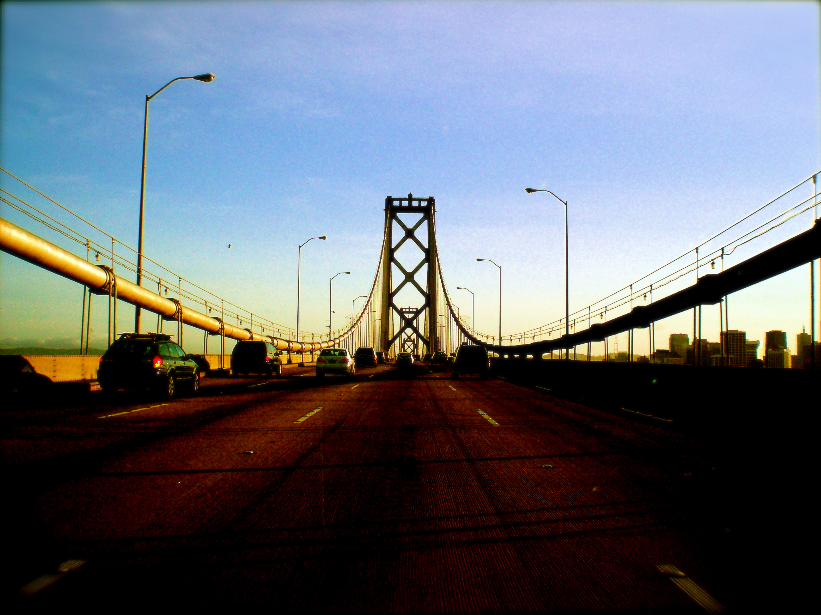 San Francisco Bay Bridge, showing the cables featured in the William Gibson novel, Virtual Light.